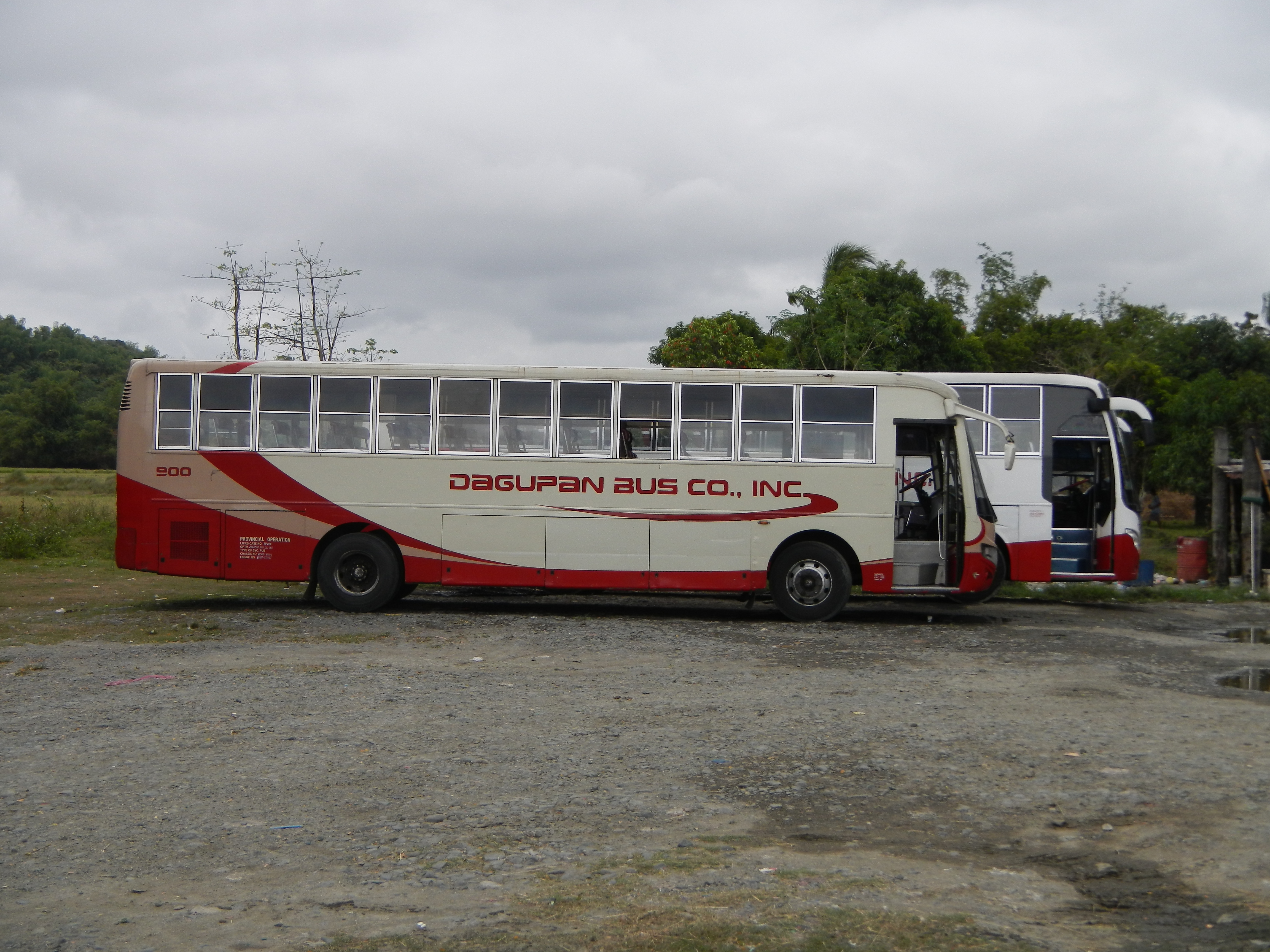 Upload Wizard photos of -- (general description of landmarks, town, Church, going to dark, sunset conditions) - Agno, Pangasinan[1] - the scenery along the Pan-Philippine or Maharlika National Highway from the towards the North Luzon Expressway (NLE or NLEx), at Dau Mabalacat exit, where the Mabalacat Arch is seen, towards the CSI Mall and jeep terminal going to Anda and Agno, Pangasinan are located, in Alaminos, Pangasinan, going to the Bani-Agno Road Km 336-375 - towards Bangan-Oda the 1st Barangay of Agno, Pangasinan, finally passing the Poblacion East, Agno, Pangasinan, the Centro, Town Proper and downtown where one sees the being contructed Junction, Intersection jeep, tricyle and bus stop - Town Plaza, Park beside the Agno Bridge and Balincaging River.